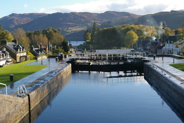 Fort Augustus Locks With view across to the mountains in the background.